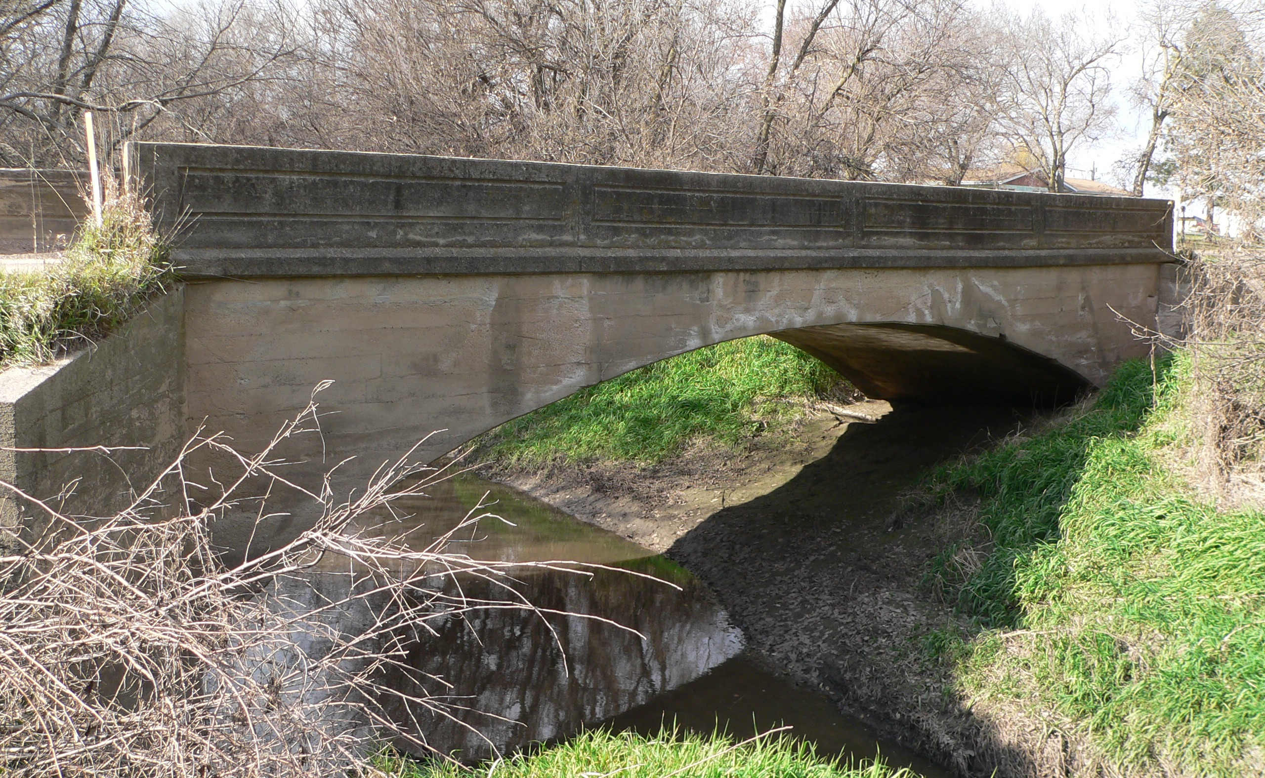 Deering Bridge, near Sutton, Nebraska; seen from the southeast (downstream). The bridge is located on the county line between Clay and Fillmore counties, where the county-line road crosses School Creek. The concrete spandrel arch bridge was built in 1916 by the Nebraska Bureau of Roads & Bridges and the Lincoln Construction Co. It is listed on the National Register of Historic Places.